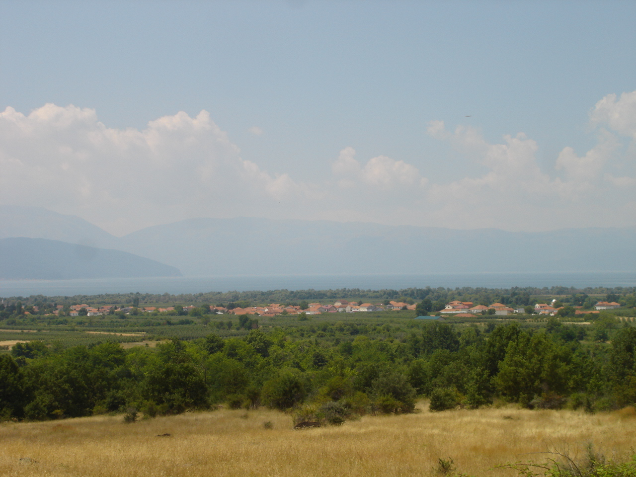 village of Nakolec, Macedonia